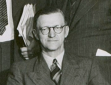 Portrait of C.R. Swart, cropped from larger image.